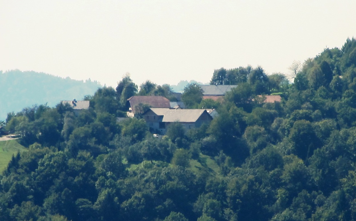 The village of Belo, Municipality of Medvode, Slovenia